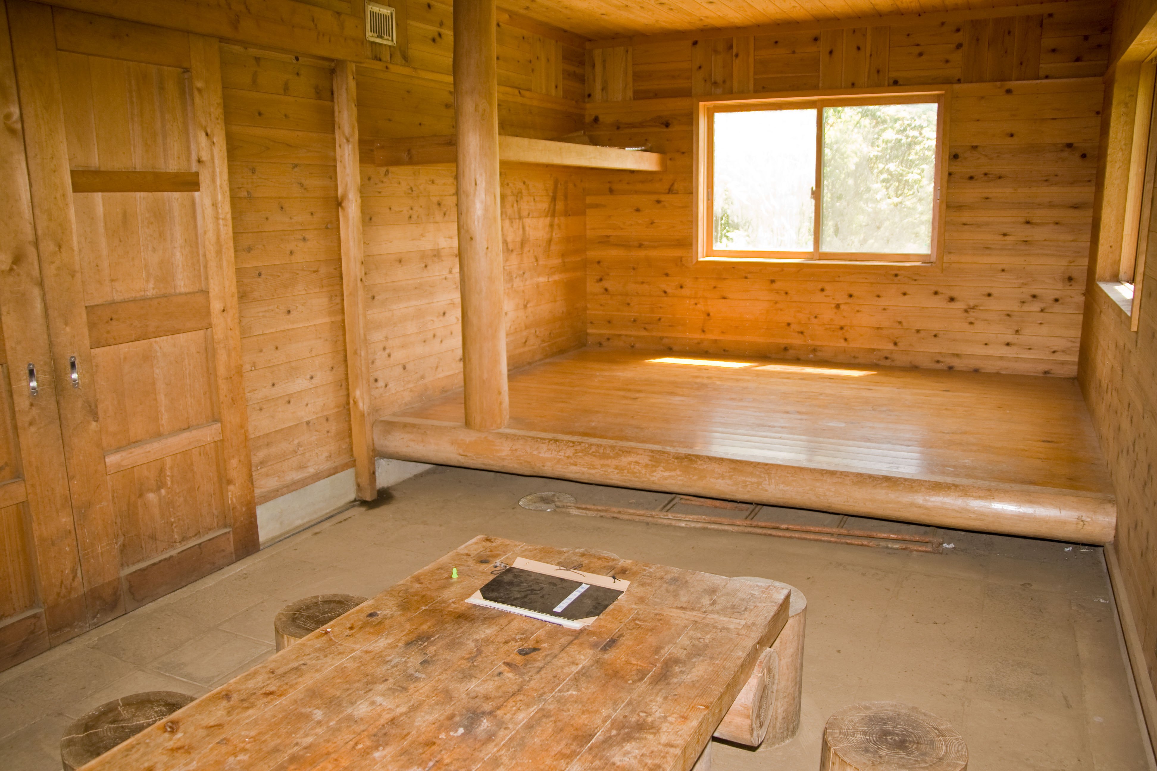 Inukoeji hinangoya ("Inukoeji shelter hut") in the Tanzawa Mountains, Kanagawa Prefecture, Japan